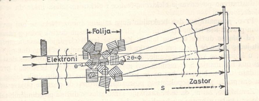 Diffraction of the electron